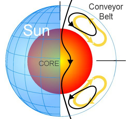 Sun's Great Conveyor Belt